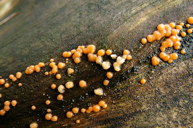 Dacrymyces stillatus from Commanster, Belgium. The determination of the species shown in this picture has been verified.